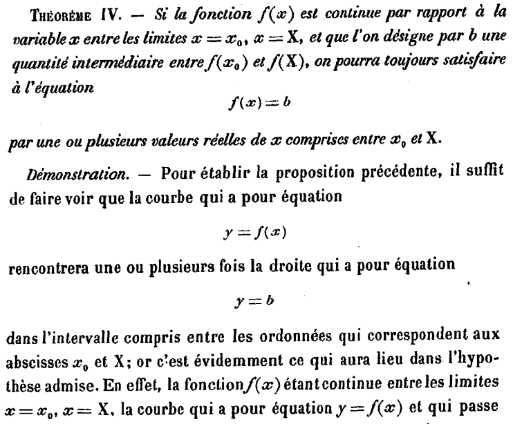 Statement and proof of the theorem of intermdiate values